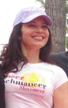 Fran Drescher at the Revlon Run/Walk in May 2007